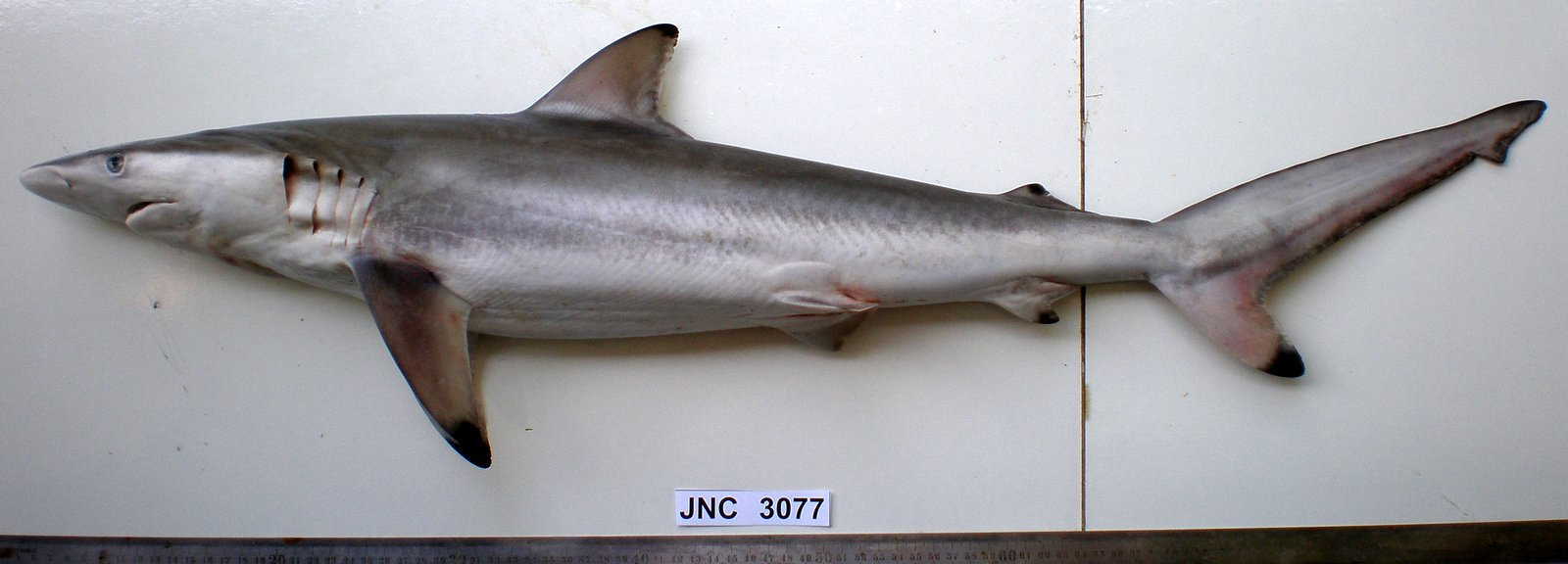 Carcharhinus brevipinna, male. Body, lateral view. Locality: from fish market, Nouméa, New Caledonia (probably caught near Nouméa City). Total Length 860 mm, Weight 2,800 grams. Date 2009-10-23.